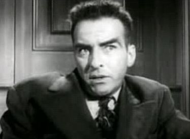 Screenshot of Montgomery Clift from the film Judgment at Nuremberg (1961)